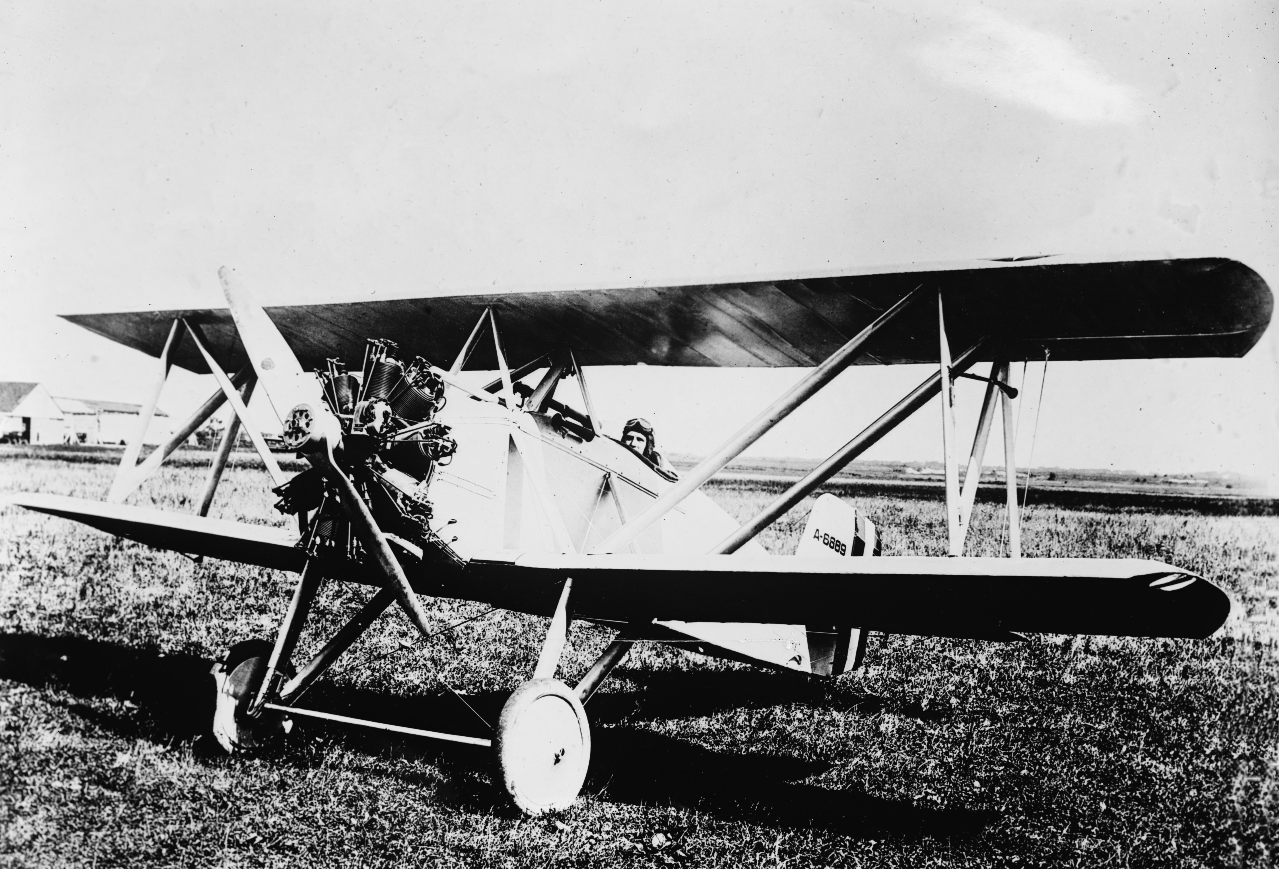 A U.S. Navy Curtiss F4C-1 (BuNo A-6689), the fist of two built. The F4C was an all-metal version of the Naval Aircraft Factory TS-1, which was produced by Curtiss as the FC-1. The F4C-1 first flew on 4 September 1924. Its wings had tubular spars and stamped dural ribs, the fuselage was constructed of dural tubing in a Warren truss form. Compared to the TS-1, the lower wing was raised to the base of the fuselage. The F4C-1 was armed with two 7.62 mm machine guns and was powered by a 200 hp nine-cylinder Wright J-3 radial.